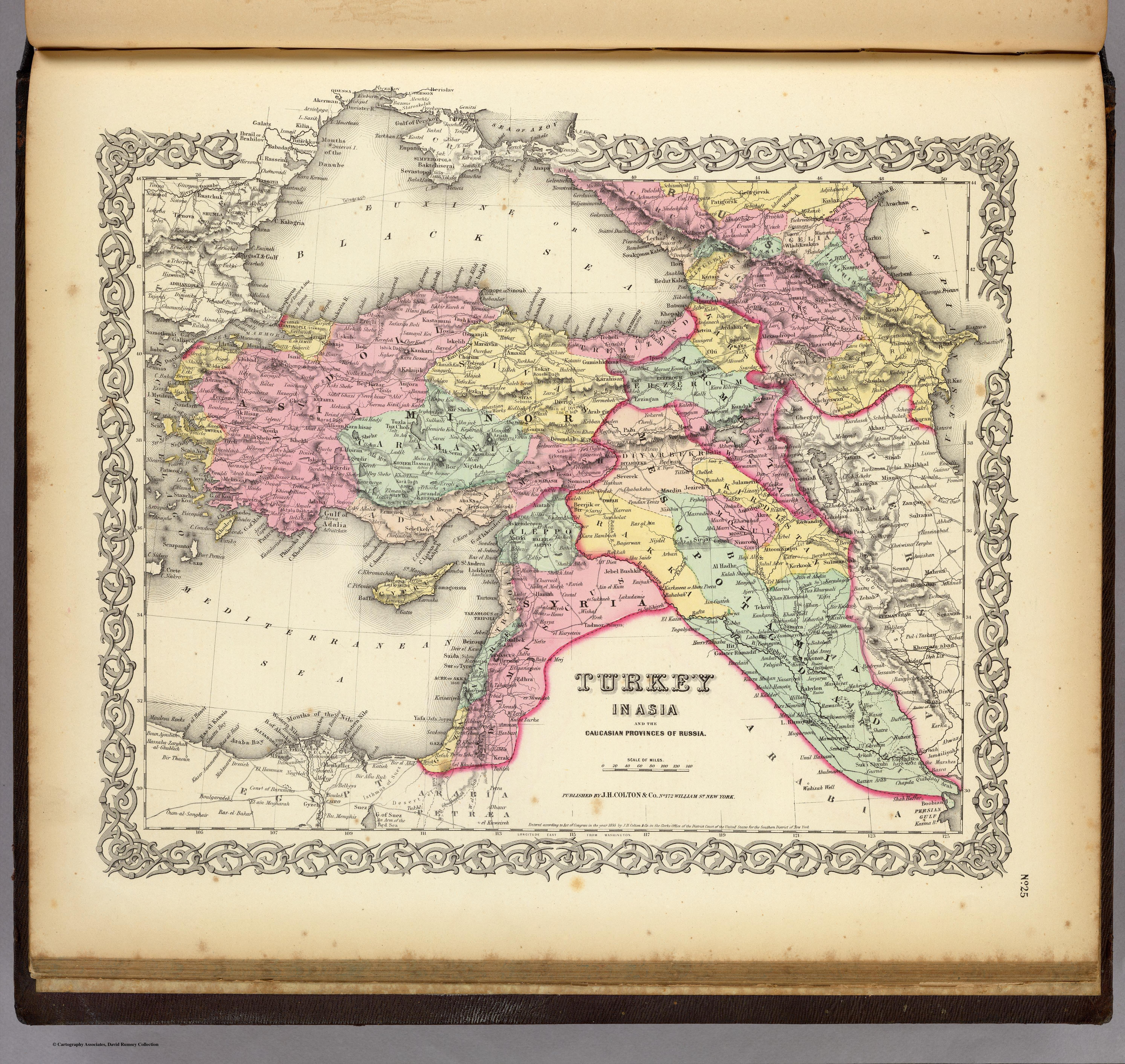 Turkey In Asia And The Caucasian Provinces Of Russia. Published By J.H. Colton & Co. No. 172 William St. New York. Entered ... 1855 by J.H. Colton & Co. ... New York. No. 25